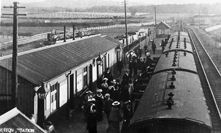 Eston railway station, looking south-west